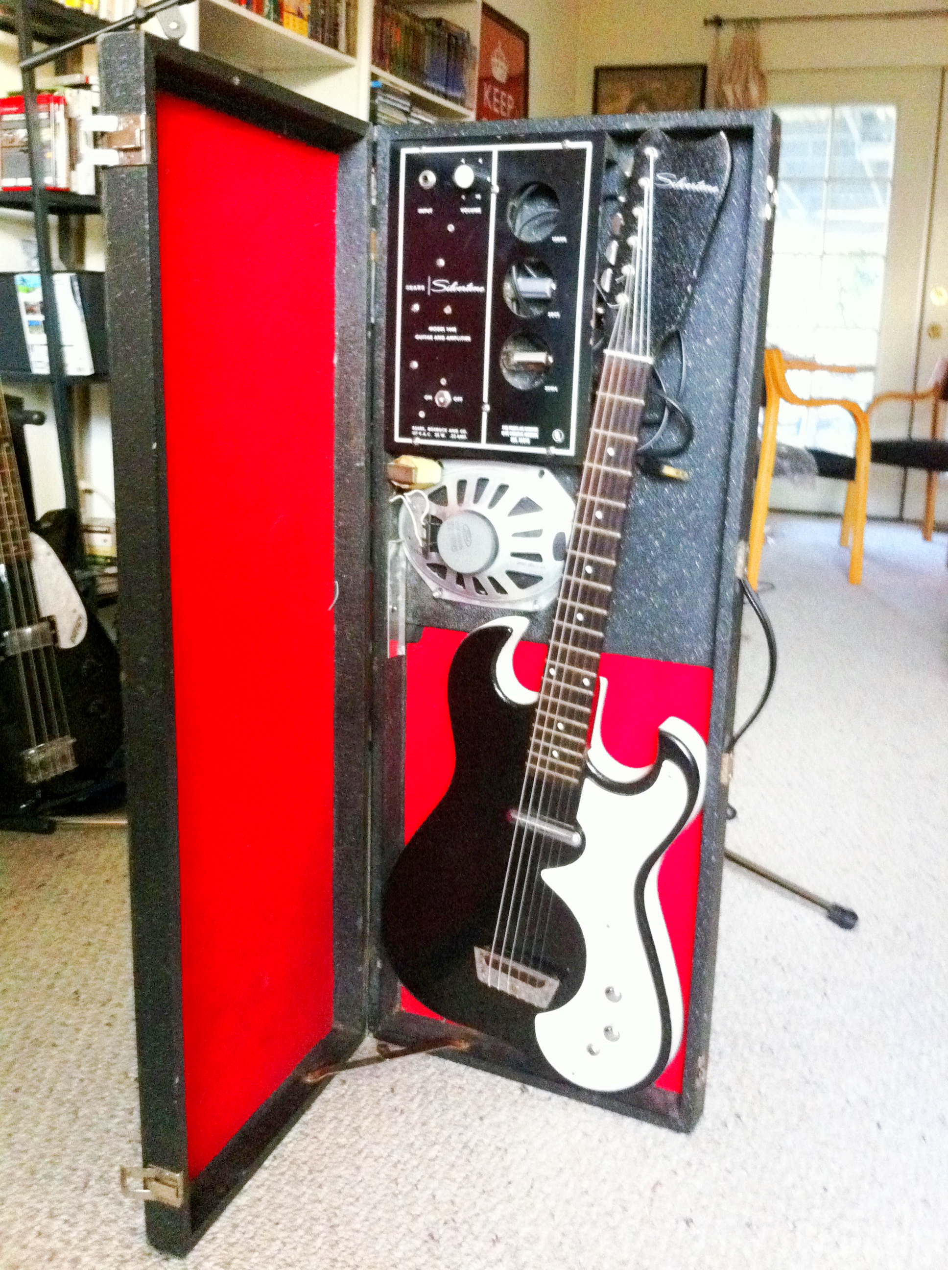 1962 Silvertone Amp-in-case electric guitar by Danelectro.